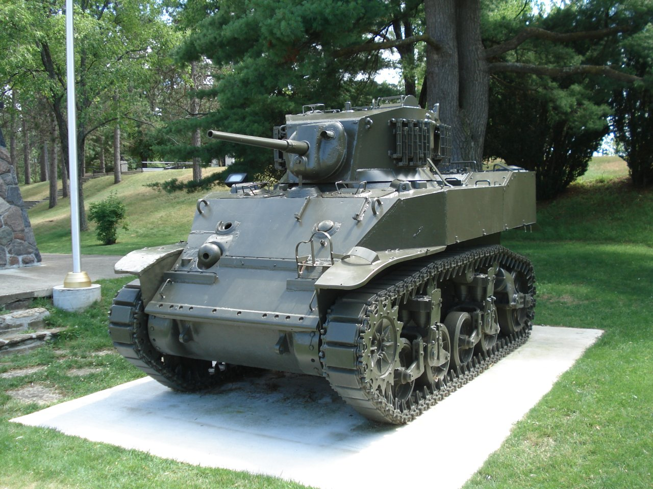 Stuart M5A1 light tank at Base Borden Military Museum